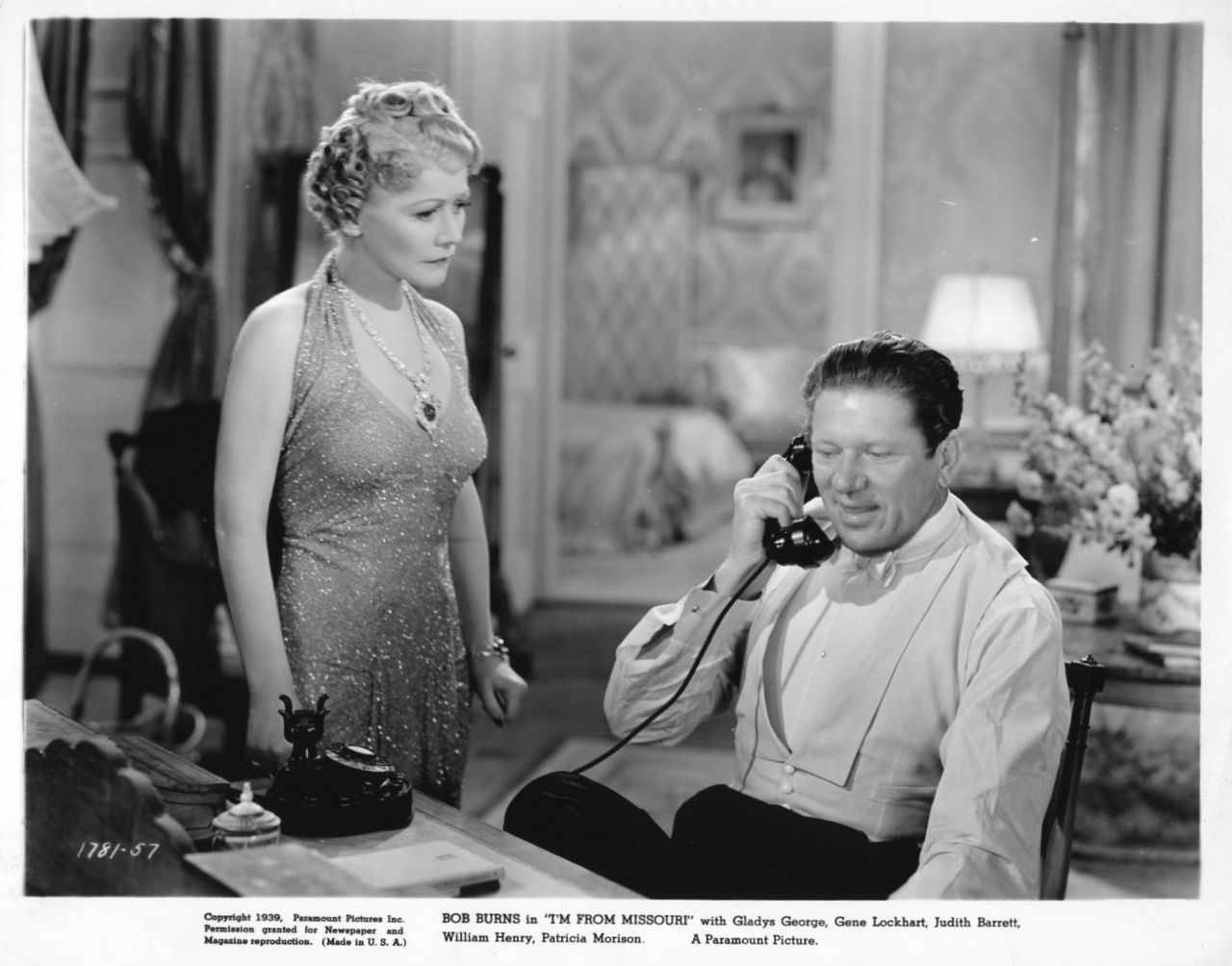 Promotion photo: Gladys George with Bob Burns in I'm from Missouri (1939).